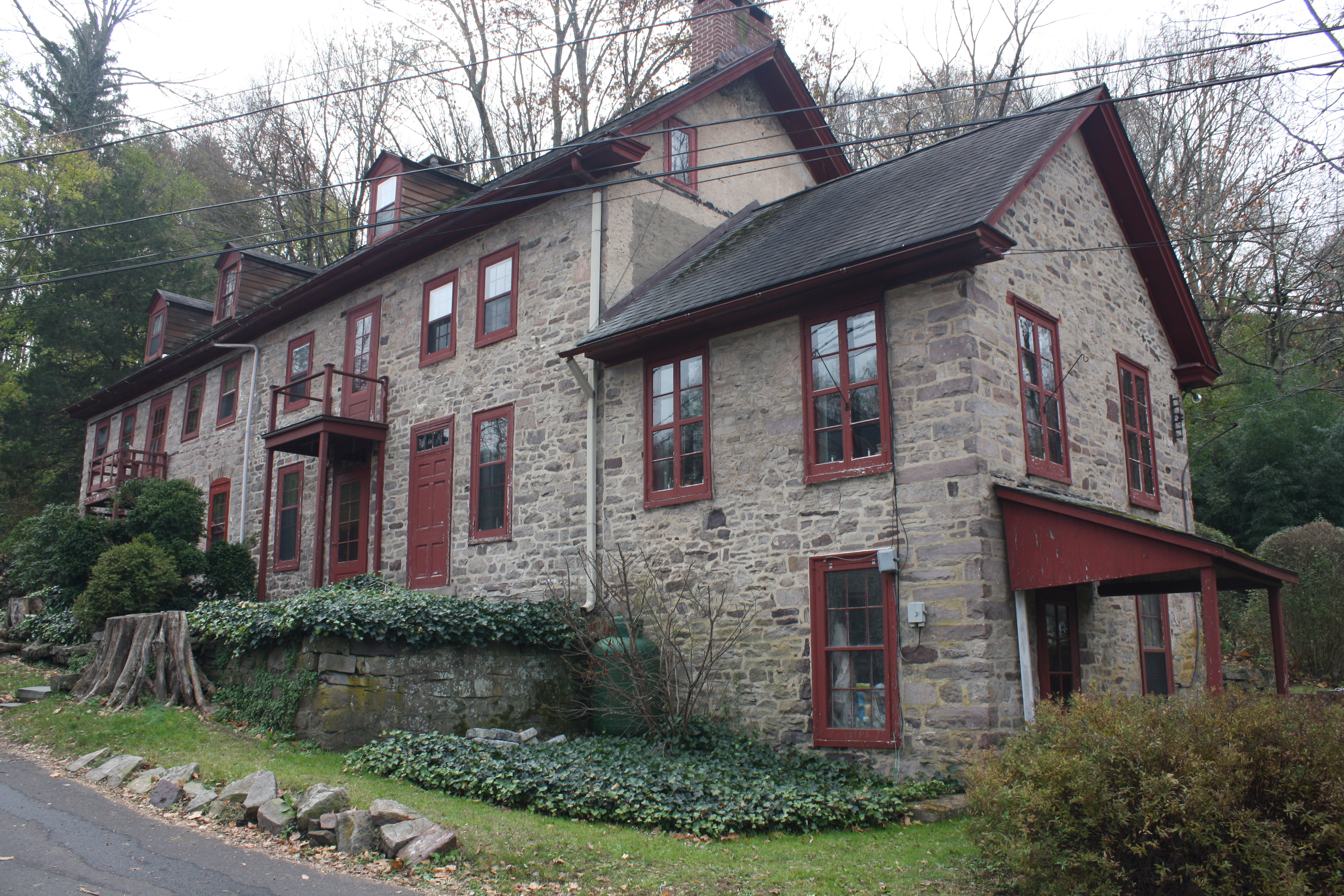 Cuttalossa Valley Historic District is a national historic district located in Solebury Township, Bucks County, Pennsylvania. Hard Times Tavern. Object location40° 23′ 38″ N, 75° 01′ 26″ W